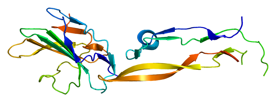 Structure of the TGFBR2 protein. Based on PyMOL rendering of PDB 1ktz.